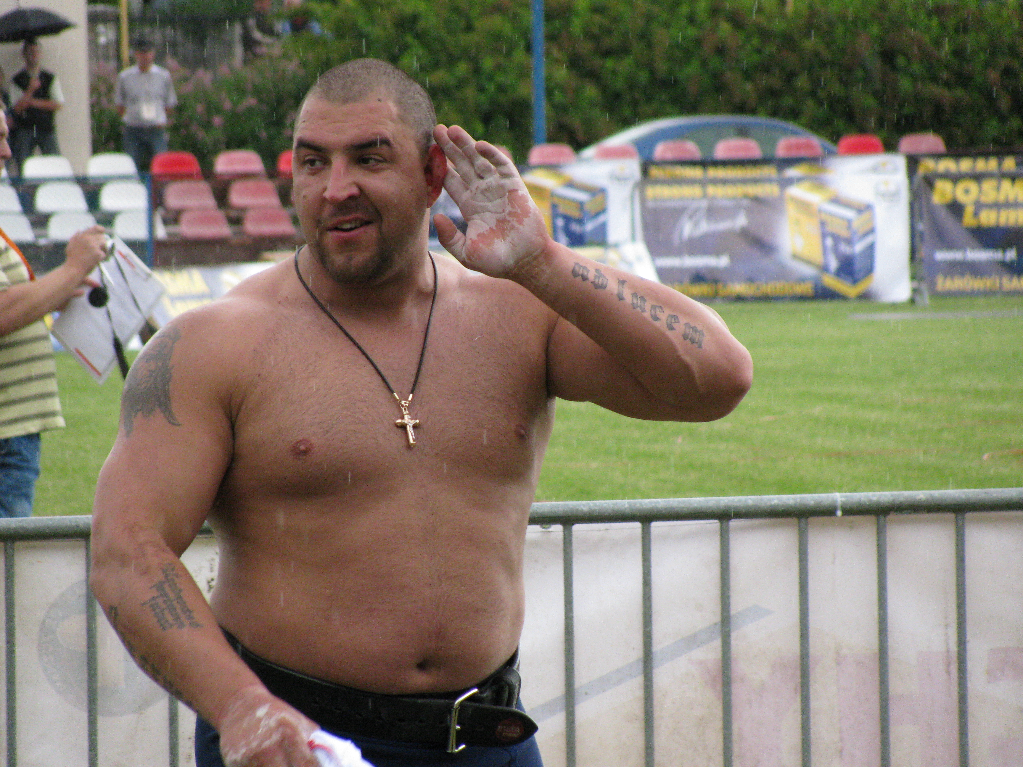 Raivis Vidzis - a strength athlete from Latvia